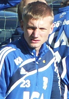 Swedish football midfielder Sebastian Eriksson, at the IFK Göteborg training ground "Kamratgården".